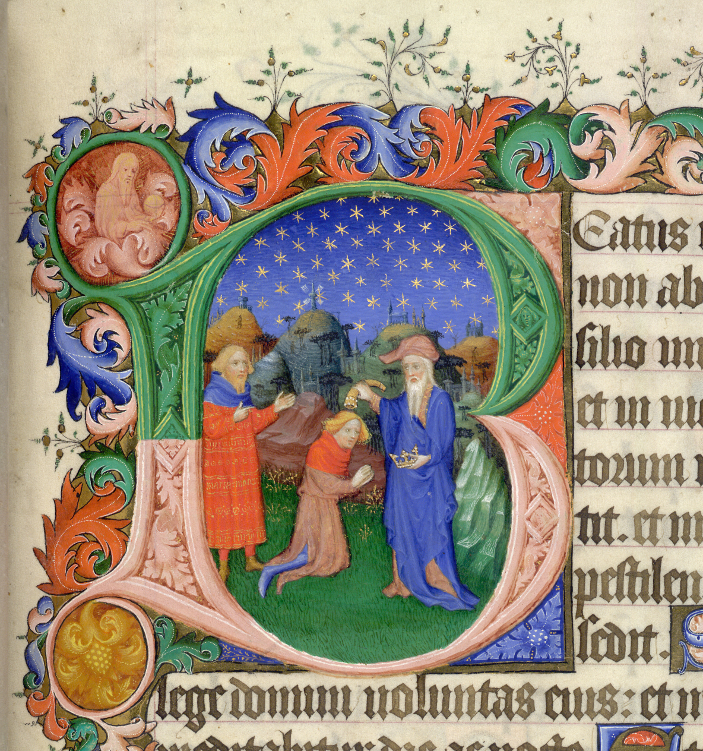 Illuminated initial showing Samuel anointing David with Jesse nearby; from BL Add MS 42131, f. 73r (the "Bedford Psalter and Hours"). Held and digitised by the British Library.